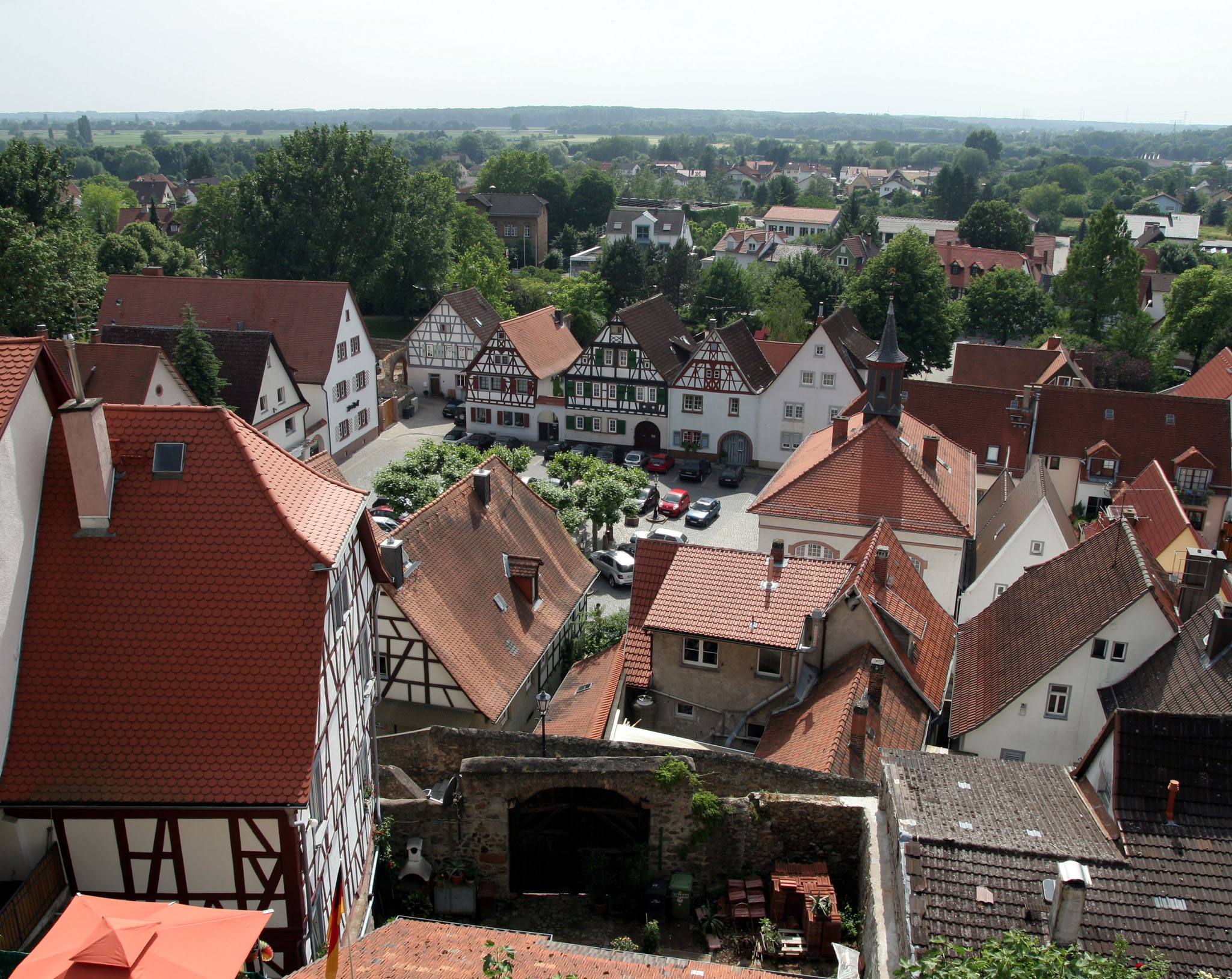 View to the old city of Zwingenberg (Hesse, Germany)